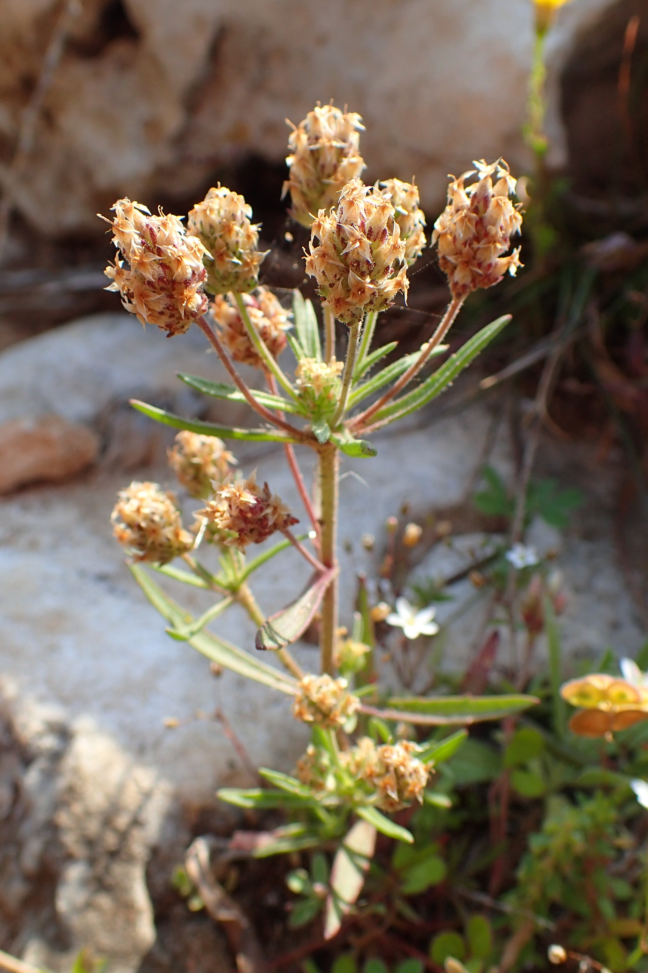 Plantago afra in Kavo Gkreko, Cyprus